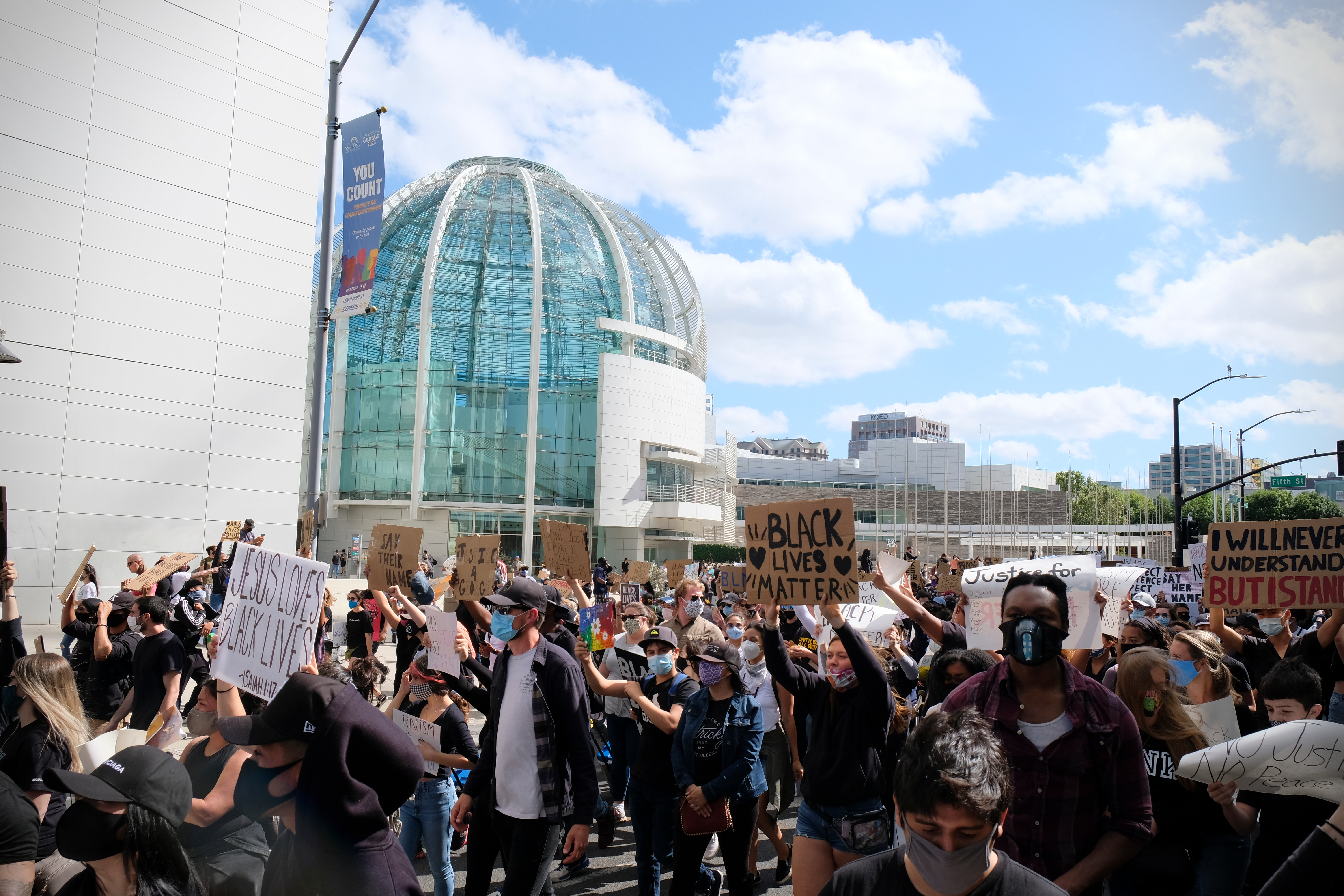 Black Lives Matter protest in downtown San Jose, California on June 7, 2020